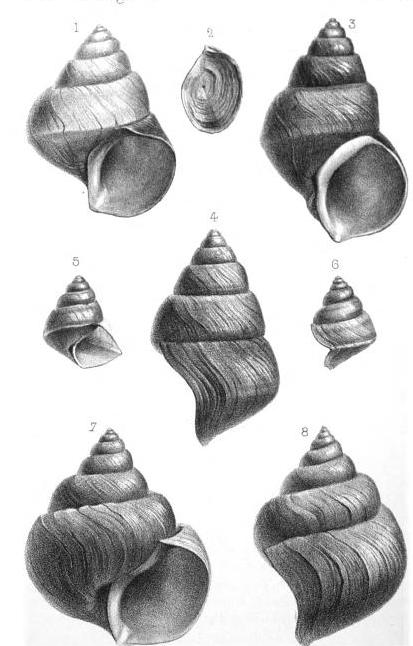 A selection of mollusks of the genus Neothauma described and drawn in 1888, found in Lake Tanganyika.